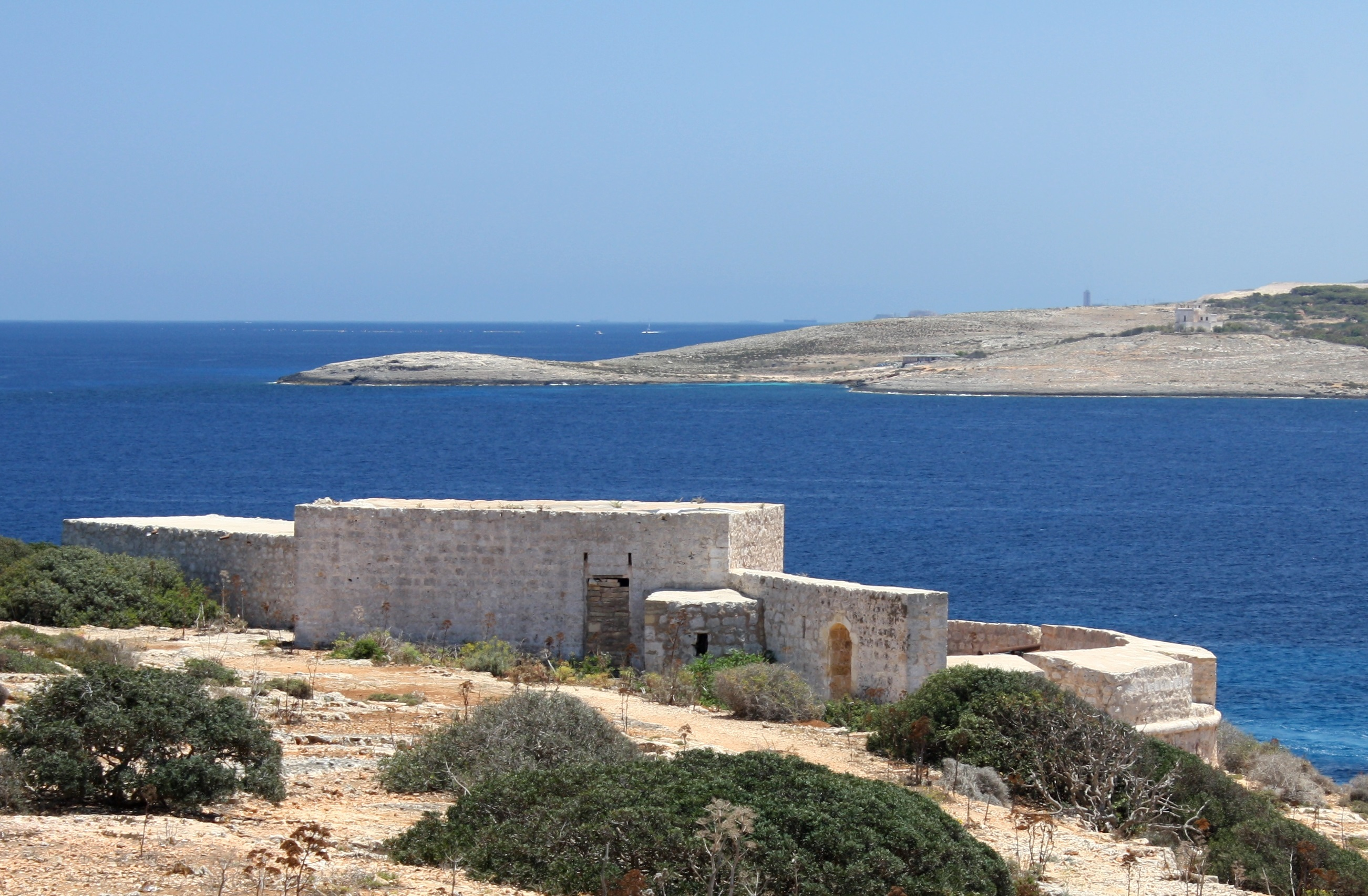 Santa Marija Battery, Comino, Malta.